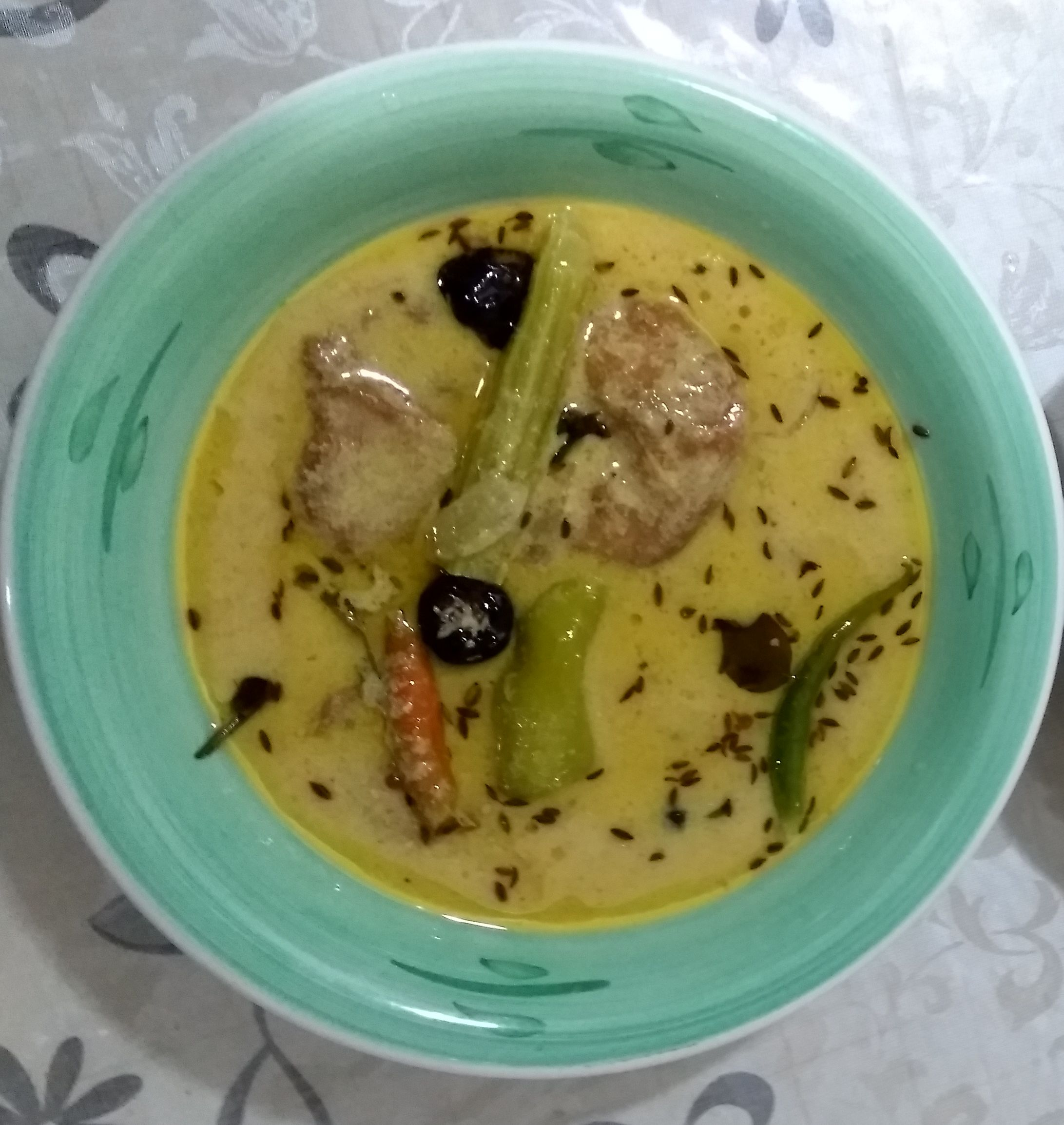 Kadhi pakora with drumstick beans, made at home in Ras Tanura, Saudi Arabia.